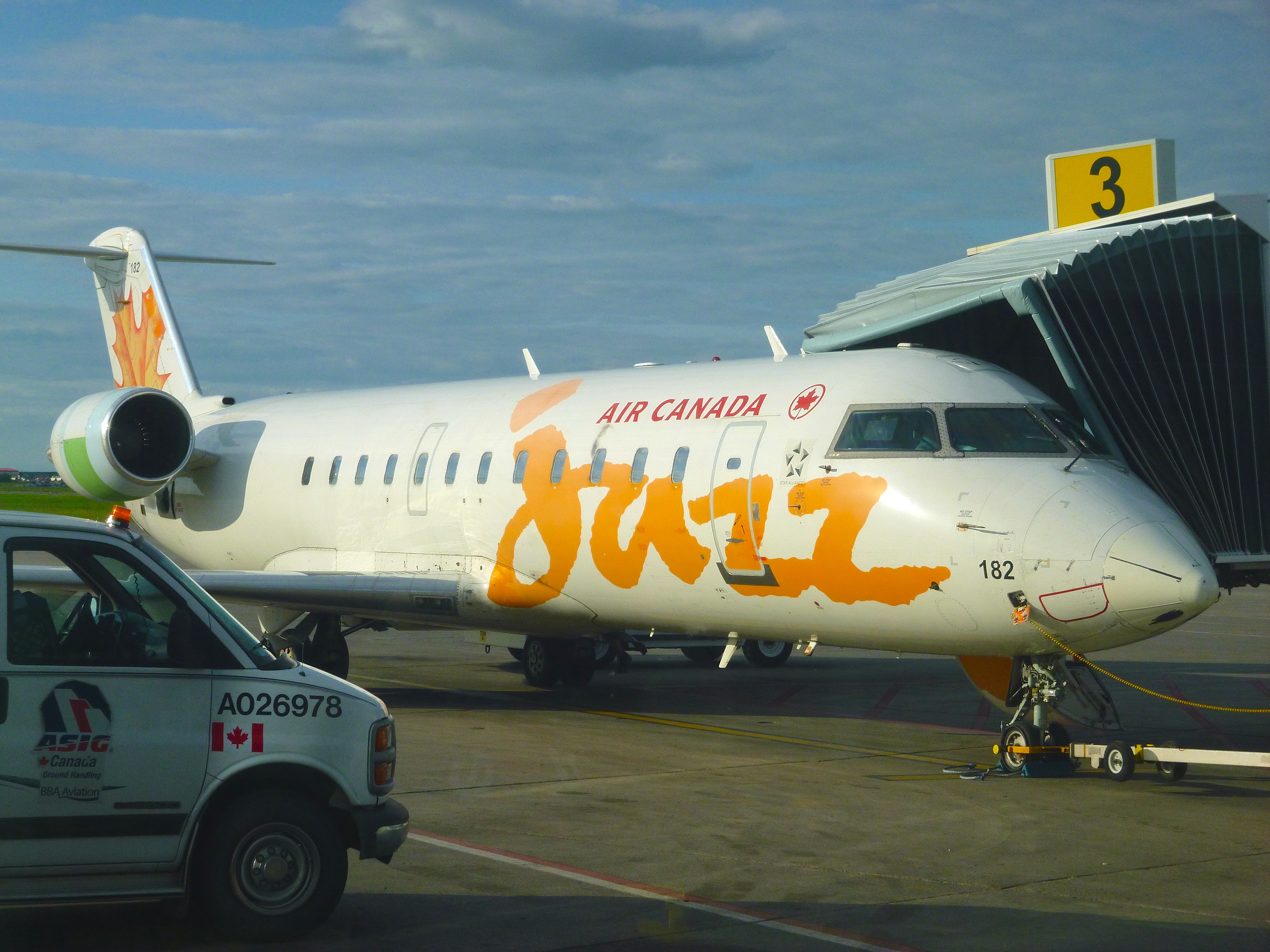 An Air Canada Jazz CRJ-200 at Gate 3 in Saskatoon.